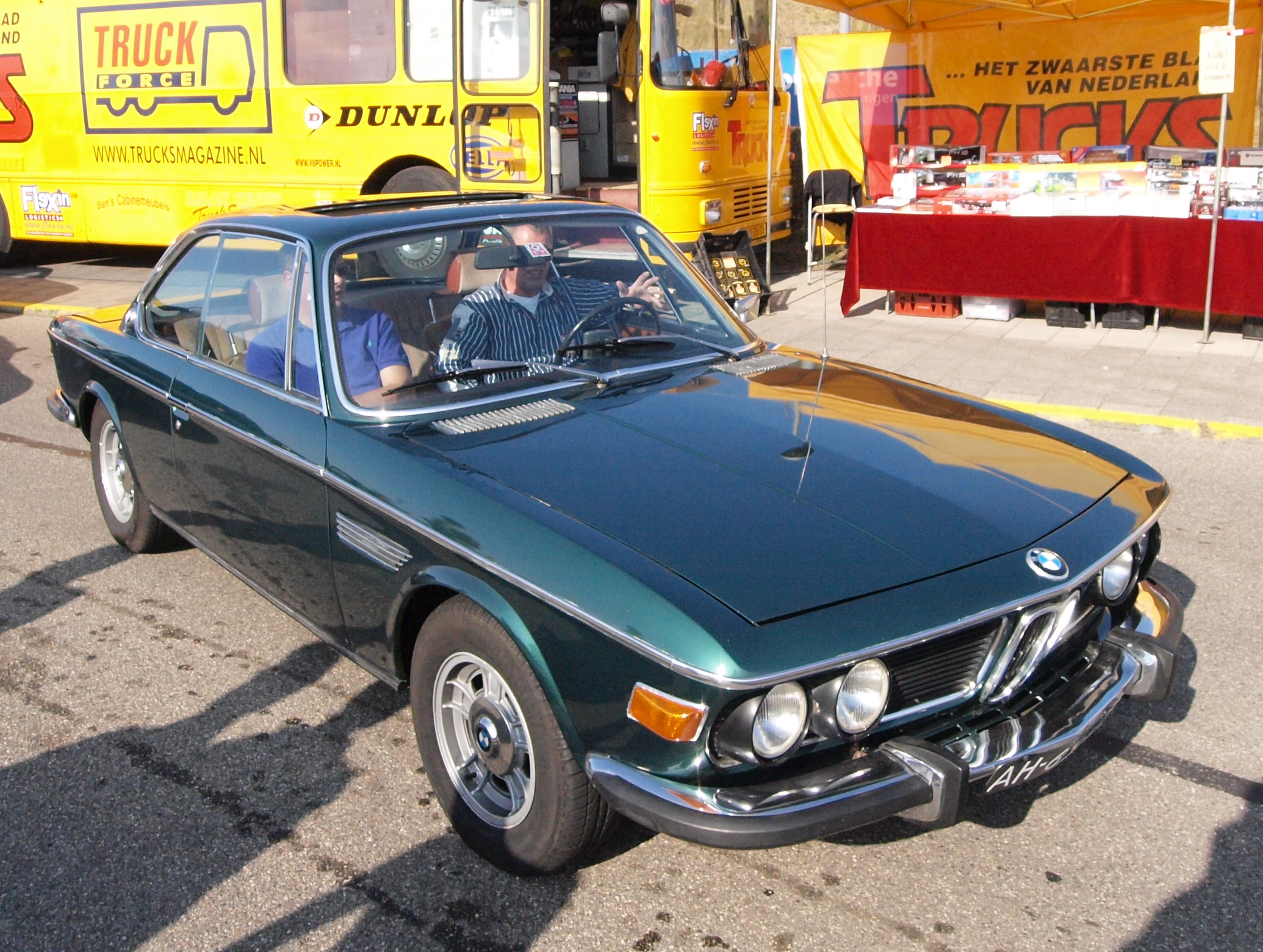 Photographed at the Nationaal Oldtimer Festival Zandvoort 2009, The Netherlands. OLYMPUS DIGITAL CAMERA